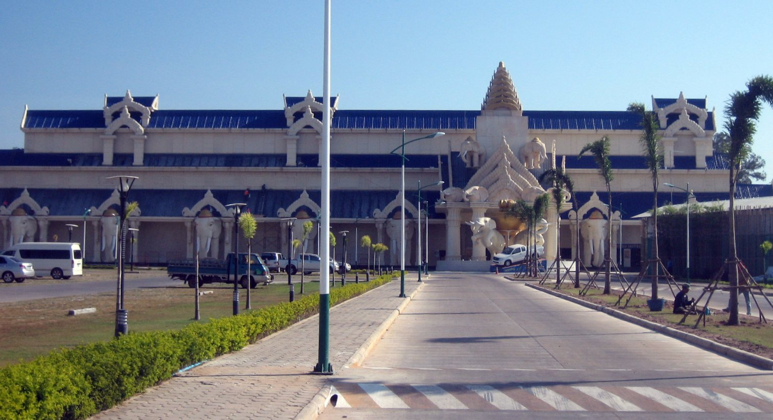 Gambling Casino in Savannakhet City that draws the Thai by the busloads.